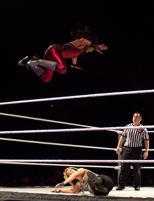 Tamina performing the Superfly Splash during a WWE house show on February 2, 2013 in Montgomery, Alabama.